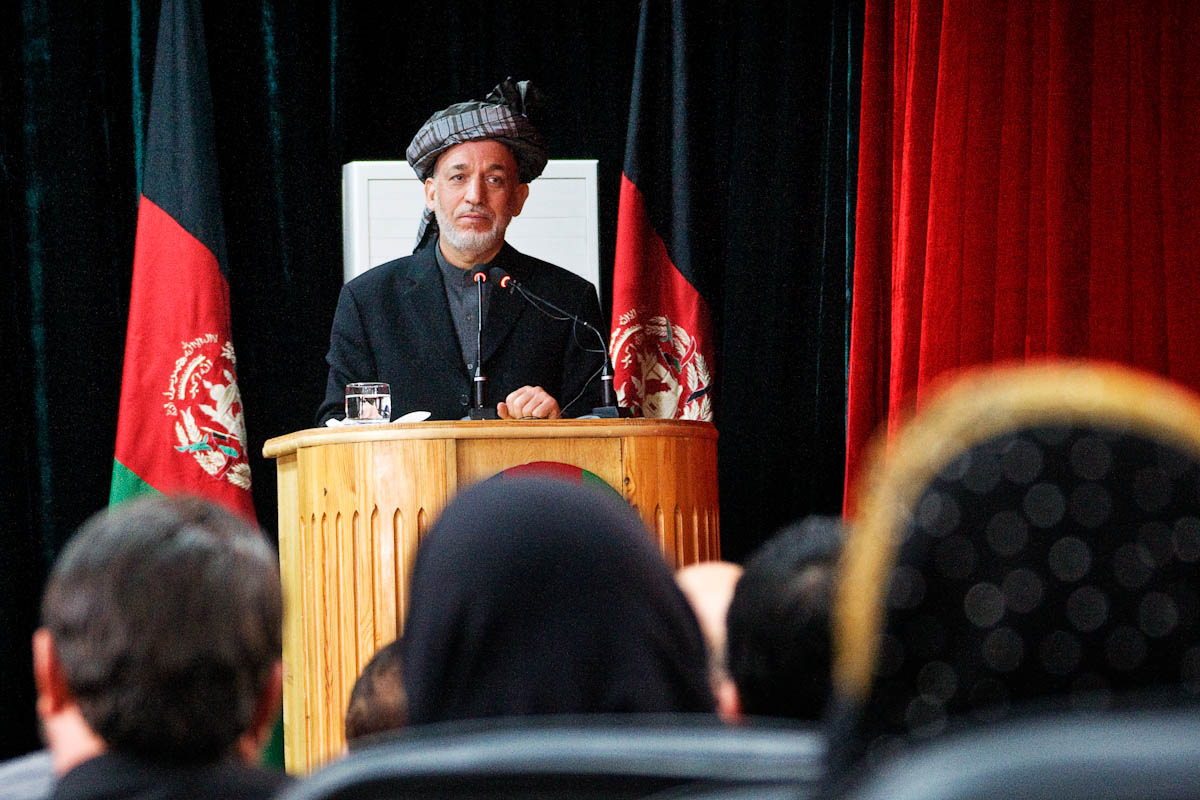 Hamid Karzai, the President of Aghanistan speaks during a visit on 2nd of January 2010 to discuss security and development issues in Helmand Province. He was accompanied by Gulab Mangal, the Governor of Helmand Province, and General Stanley McChrystal, the commander of International Security Assistance Forces in Afghanistan.